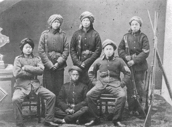 Members of the Ever Victorious Army pose for photograph